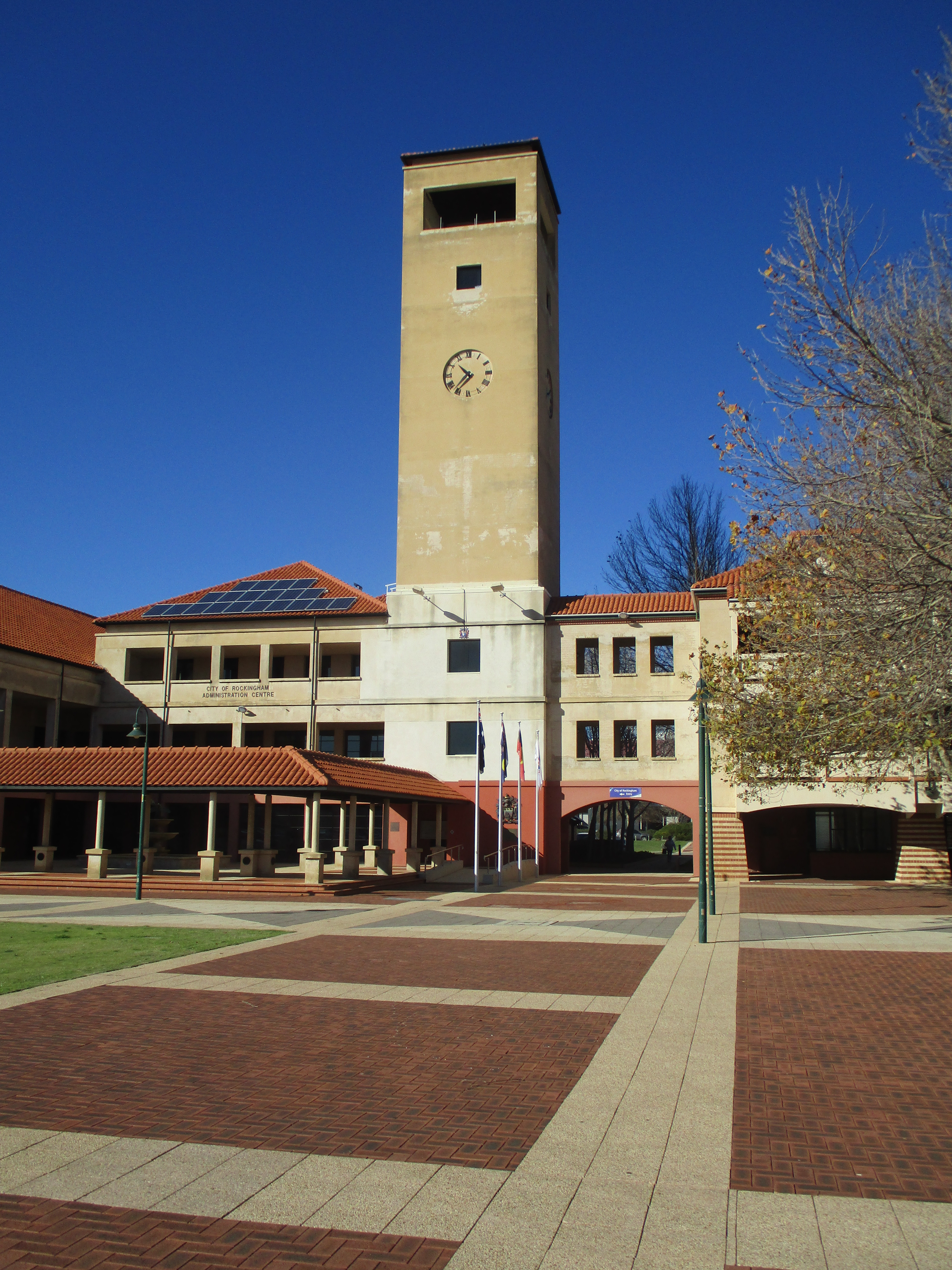 The council chambers of the City of Rockingham, seen from the north.